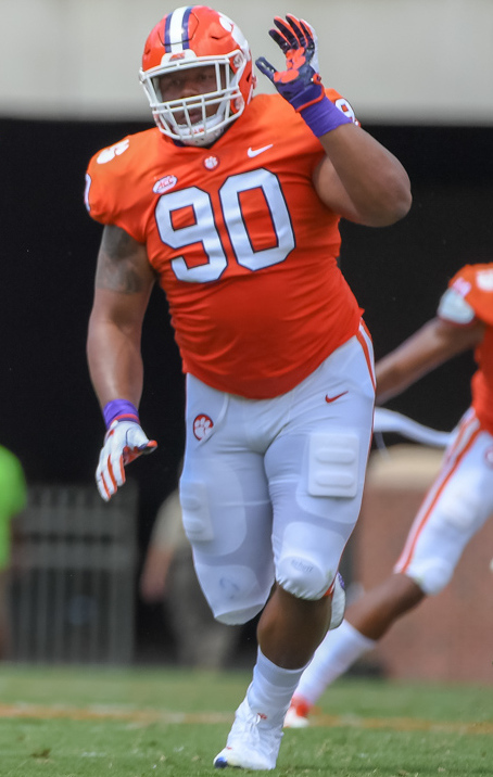 Lawrence defends the quarterback